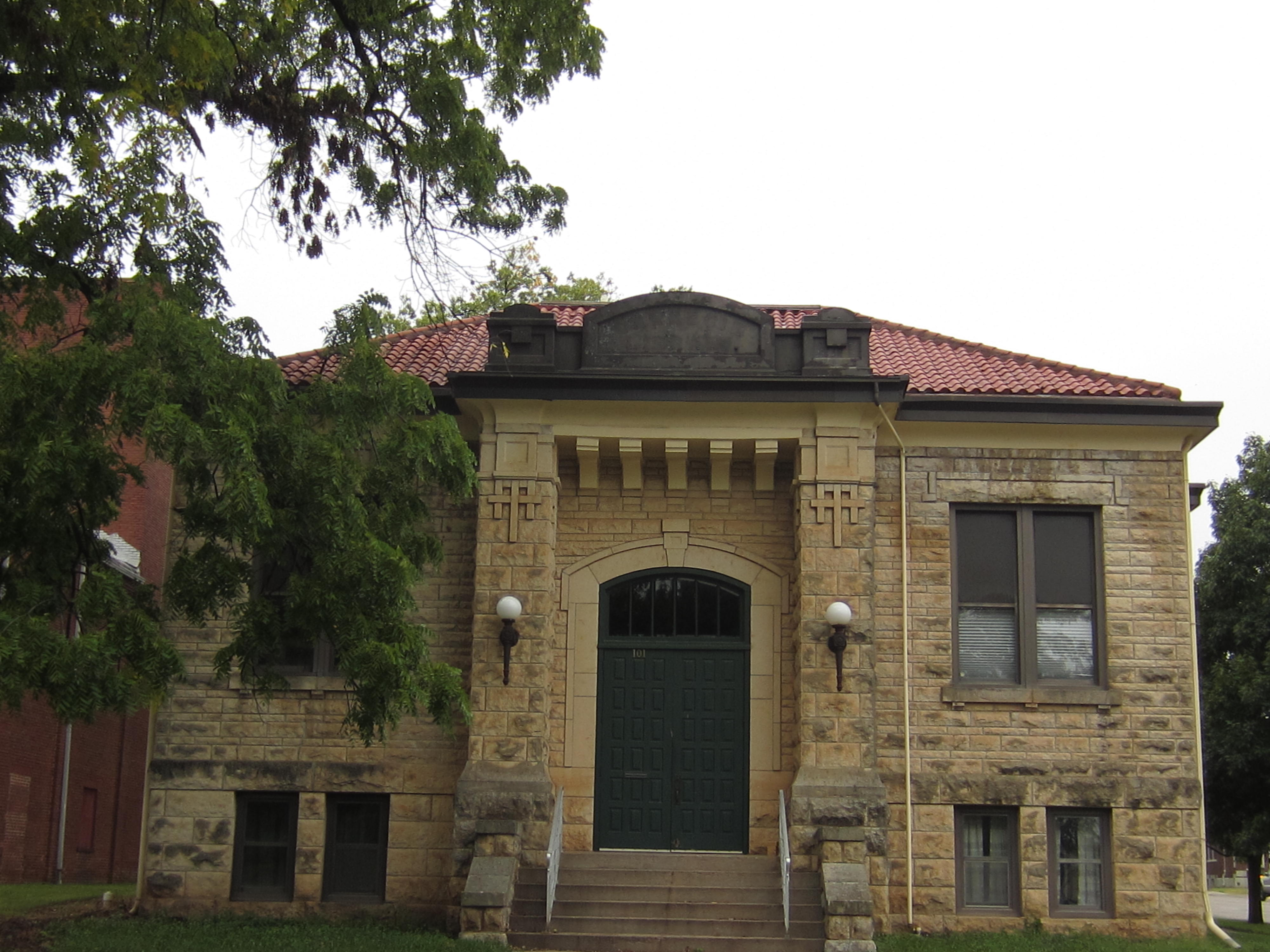 El Dorado, KS former public library building. (2013)